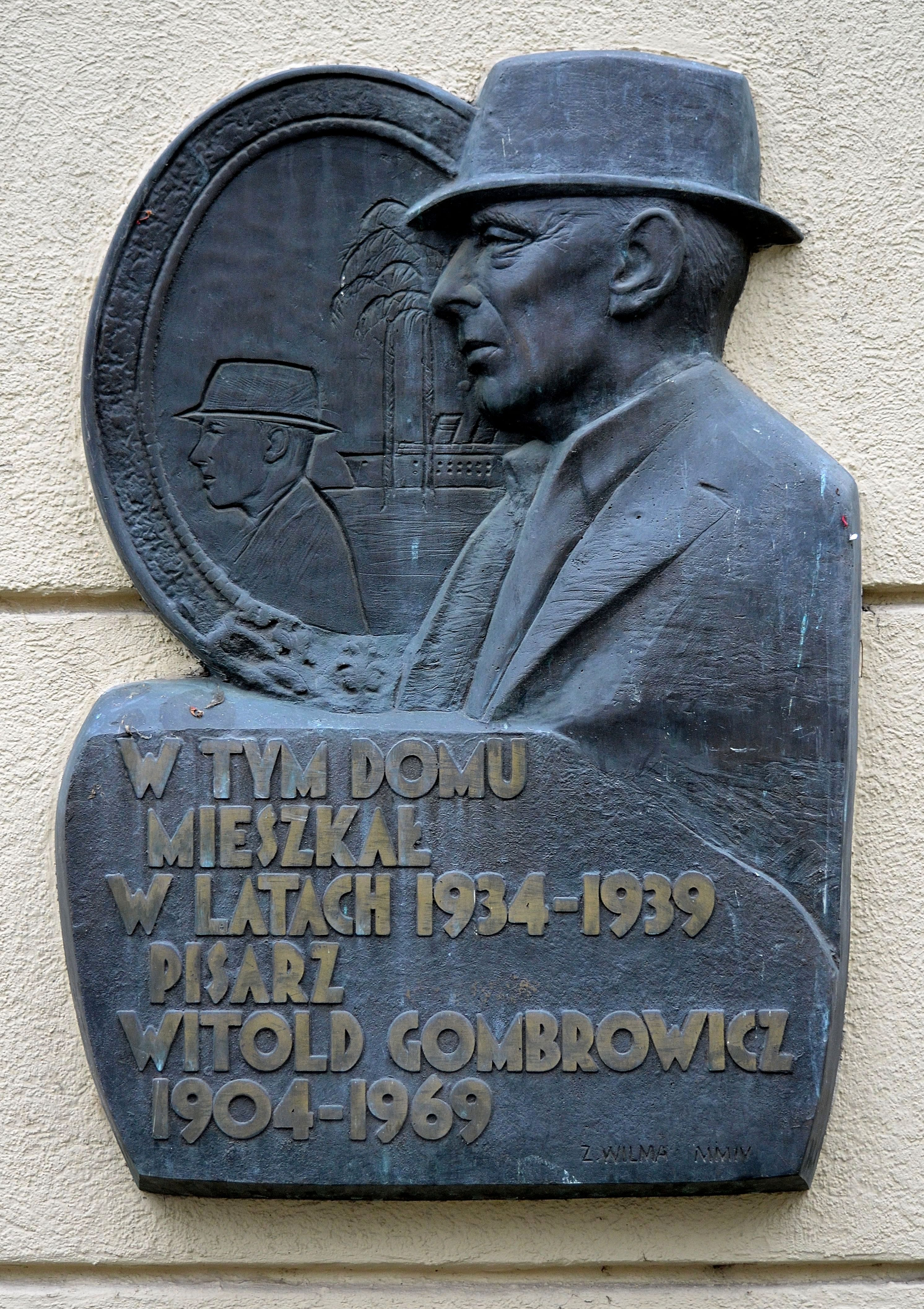 Plaque in memory of Witold Gombrowicz at 35 Chocimska Street in Warsaw